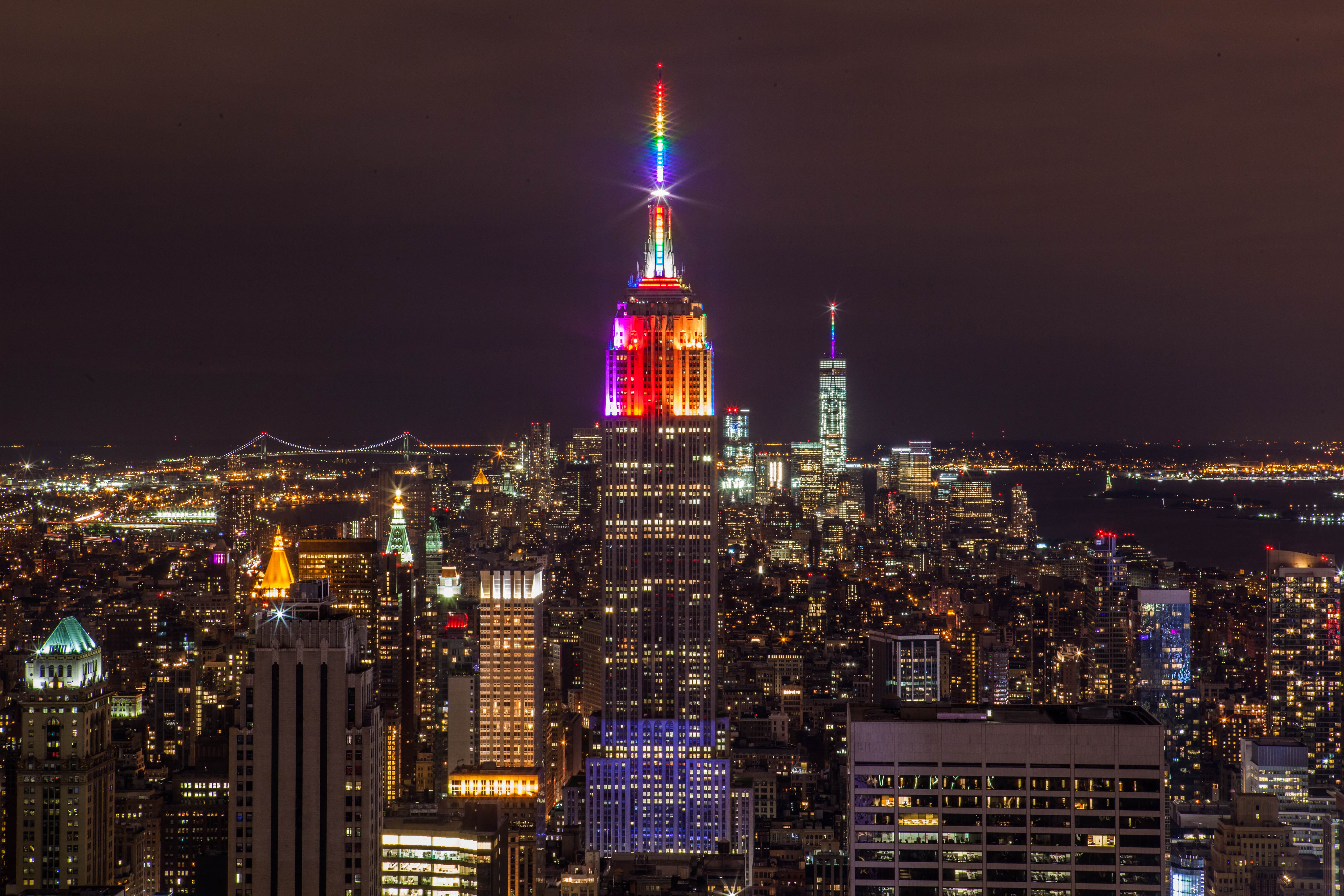 Rainbow Buildings for Gay Pride 2015